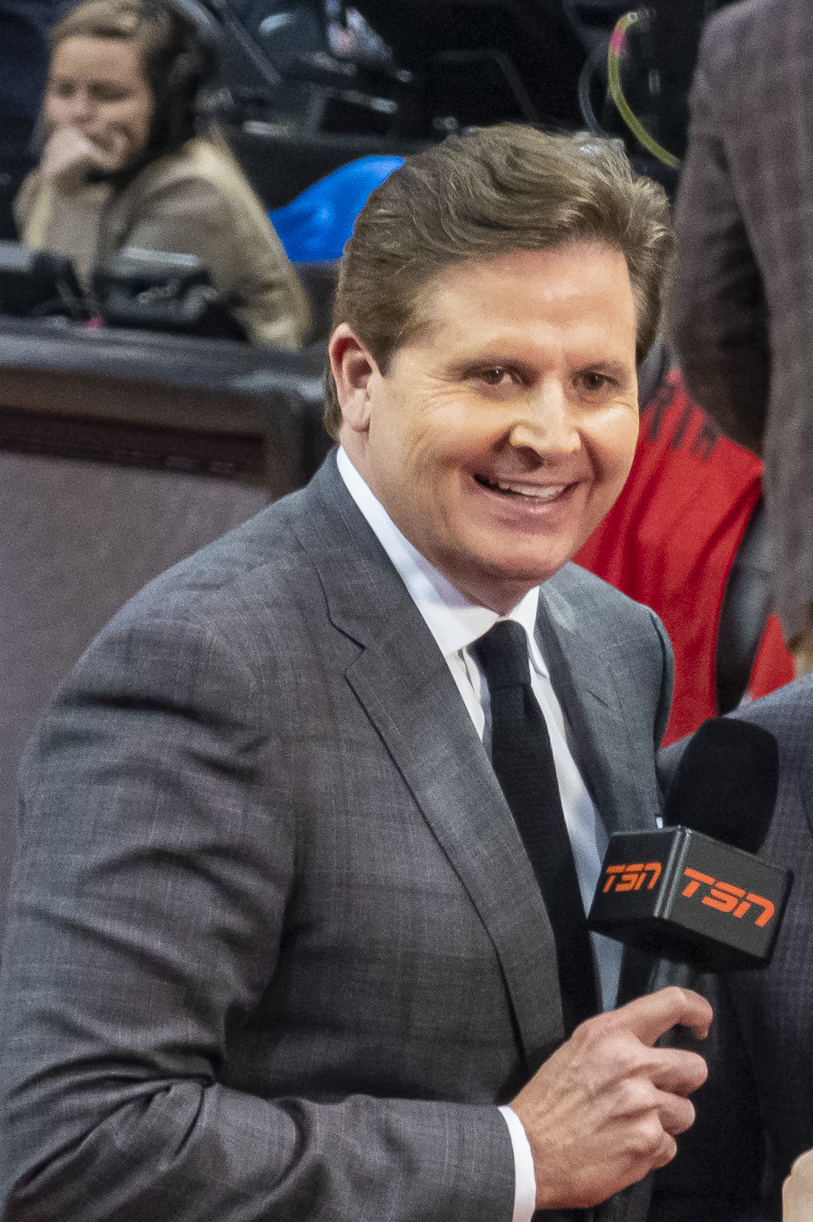 matt devlin jack armstrong 2019 game 2 2019 nba finals toronto raptors v golden state scotiabank arena